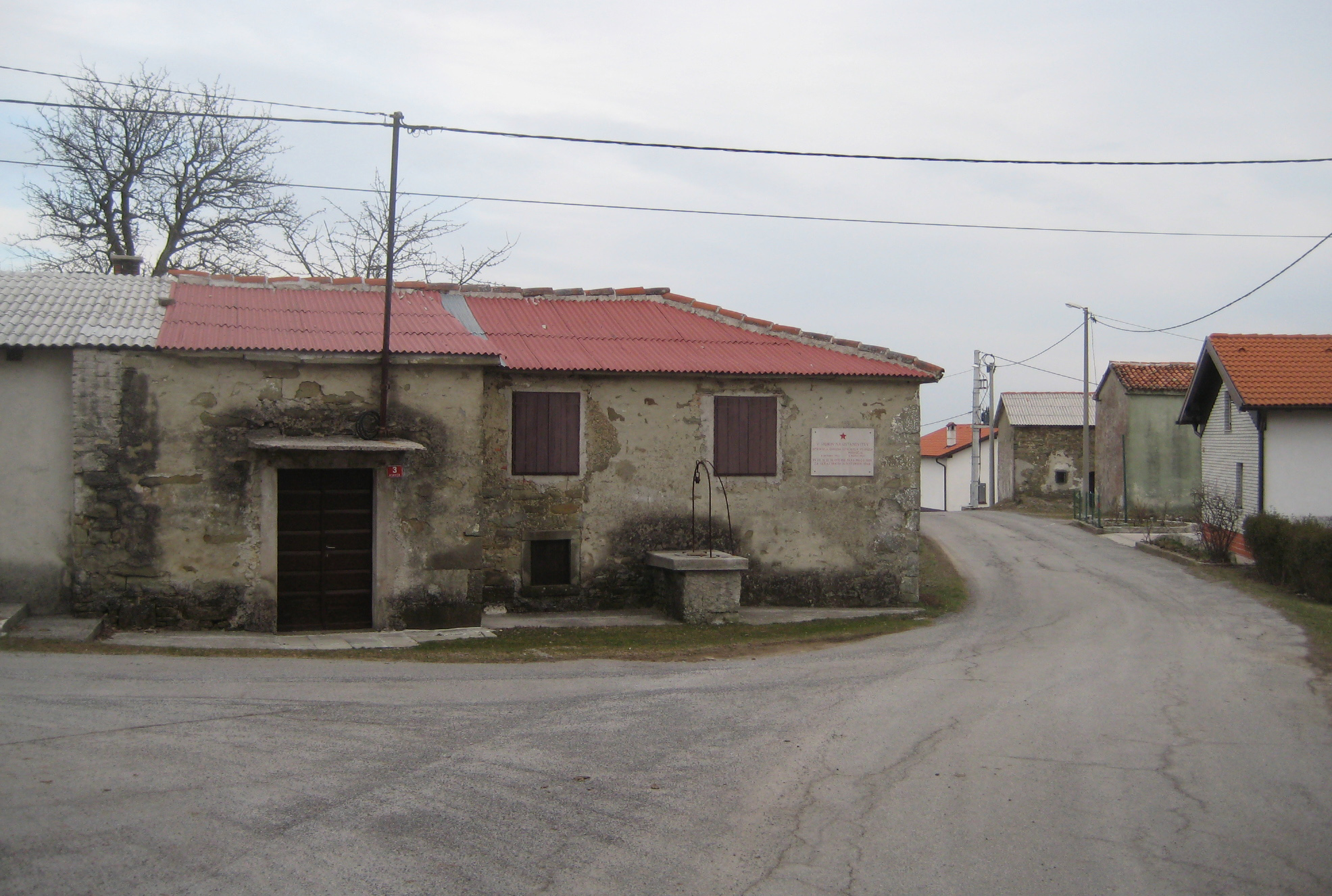 Rjavče, village in Brkini, Slovenia